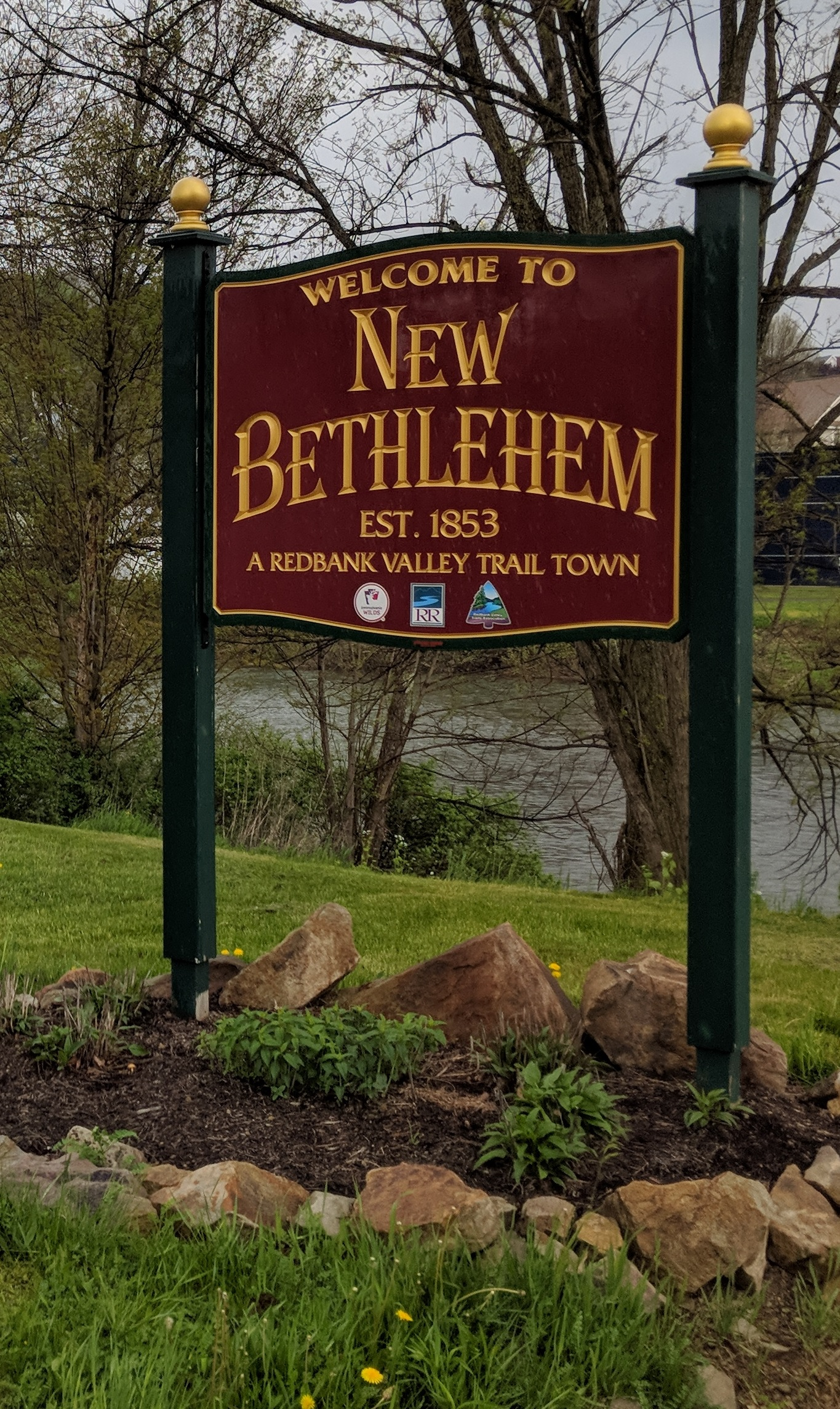 Sign in South Bethlehem just west of New Bethlehem before crossing over the Redbank Creek on West Broad Street.